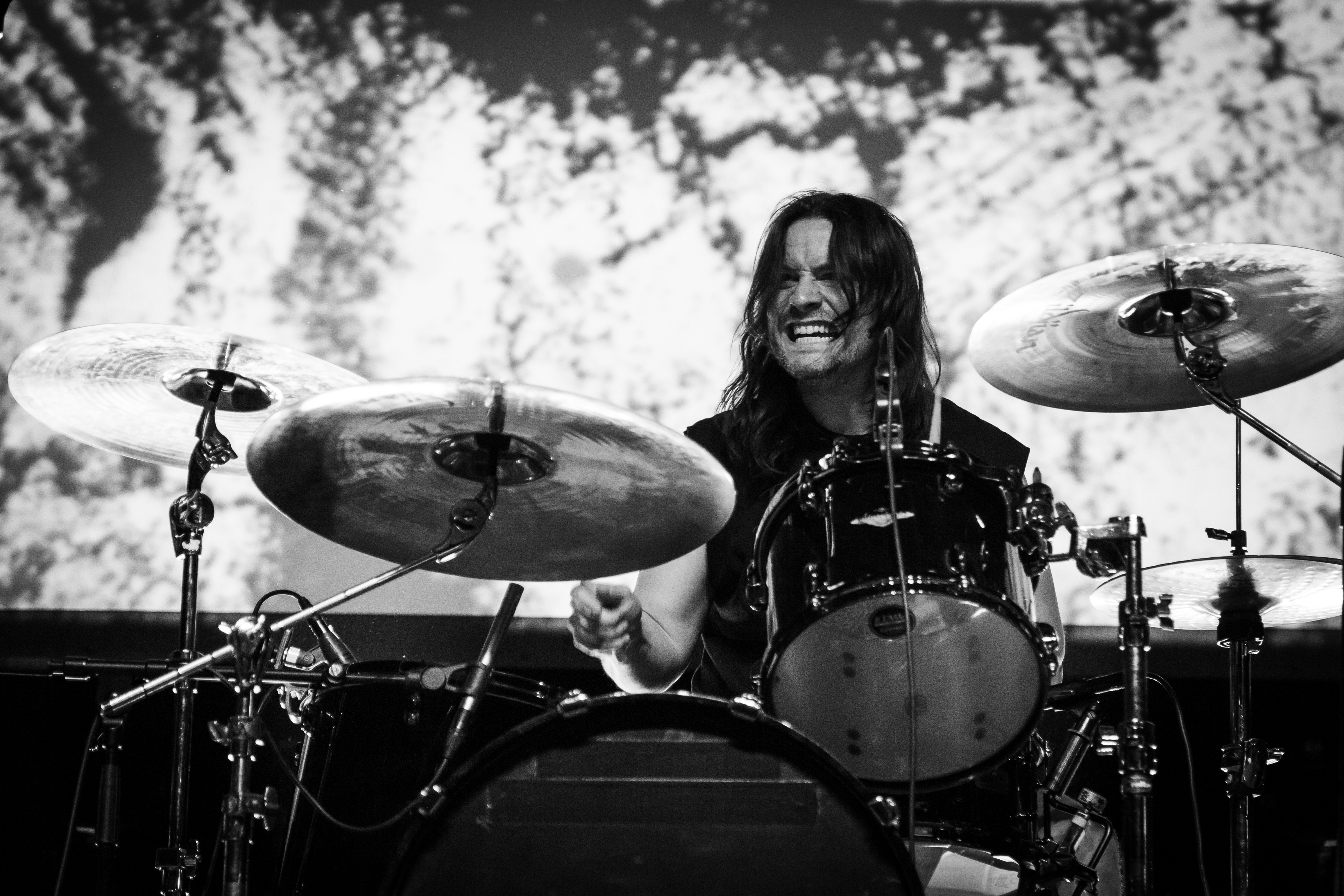 Converge performing live at Roadburn Festival 2018